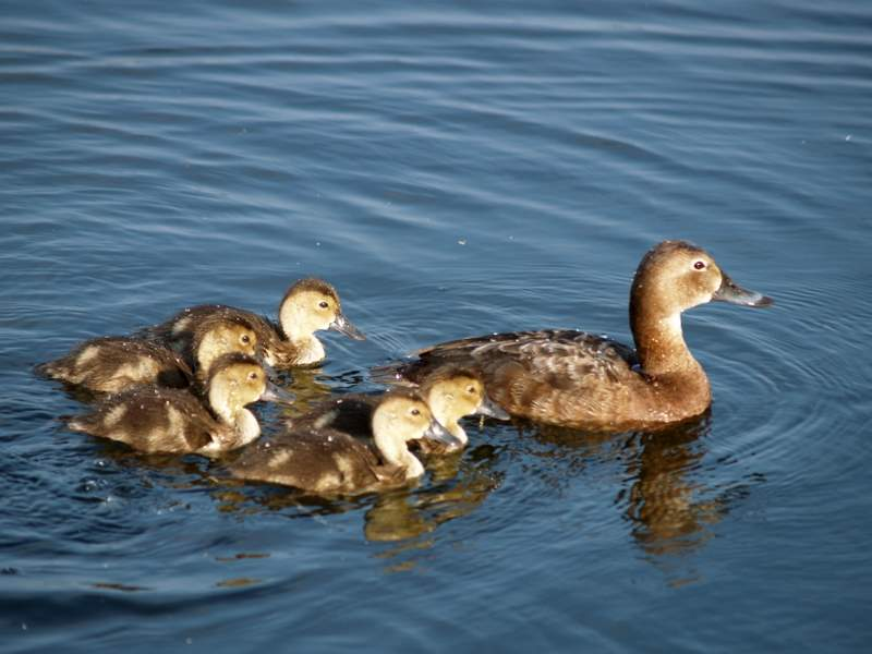 Female Pochard Aythya ferina with young, Gentofte Sø, Denmark.